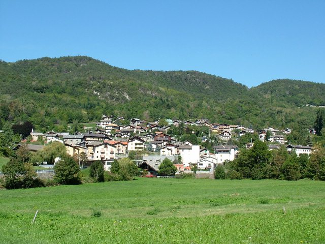 Overview of Challand-Saint-Victor (Aosta Valley, Italy)